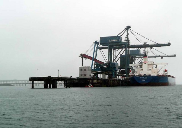 The end of the ore terminal at Hunterston A horrible day, with gales forecast, but we sailed across to take this photo of the end of the loading jetty at the Hunterston ore terminal. The bulk carrier is the Alpha Era, registered in Valetta. She is 289 m long and has nearly finished unloading her cargo of coal.